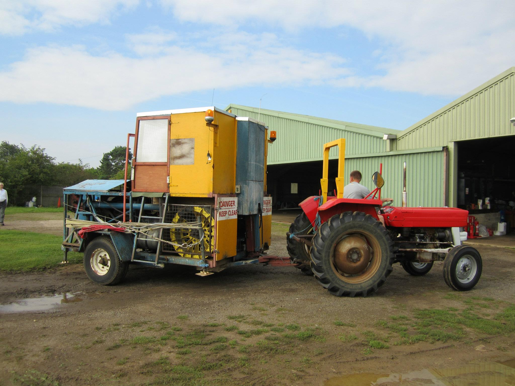 Tost style winch